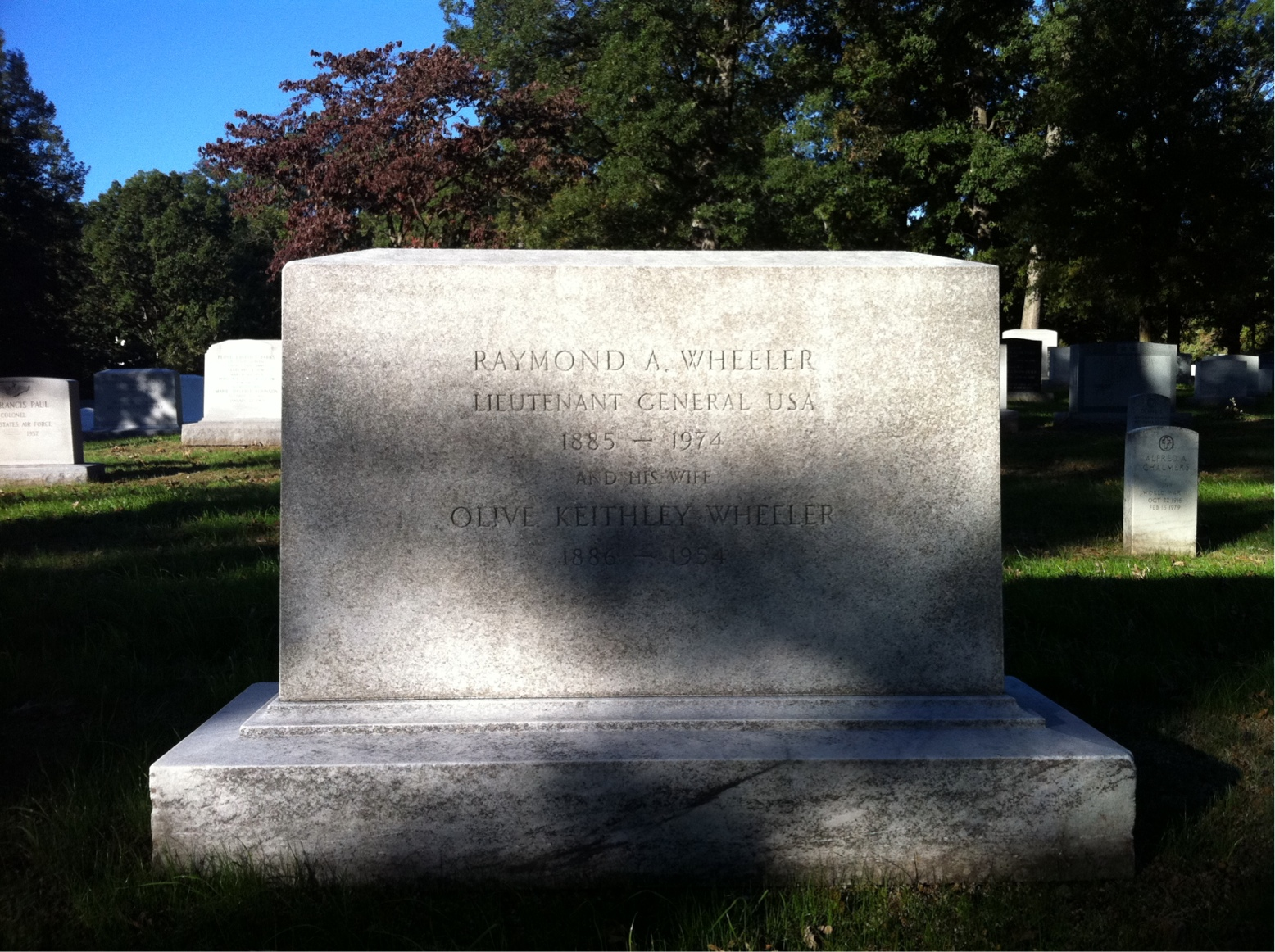 Grave of Raymond Albert Wheeler at Arlington National Cemetery